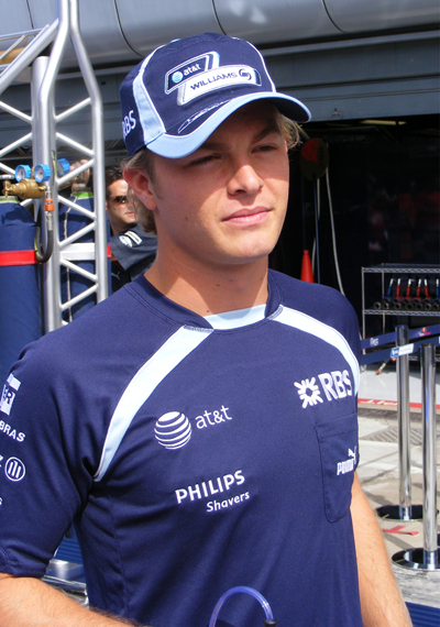 Nico Rosberg at the Italian GP 2007